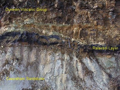 Shows (from bottom) Caversham Sandstone, palaeosol, Dunedin Volcanic Group in Kaikorai Valley. Photo by Kaikorai Valley College; please acknowledge the college when using this photo. Date30 July 2013SourceKaikorai Valley CollegeAuthorKaikorai Valley College, Dunedin, New ZealandPermission (Reusing this file) given by Dr. Simon G. McMillan, HOD Science, Kaikorai Valley College, to publish photo on Wikimedia Commons